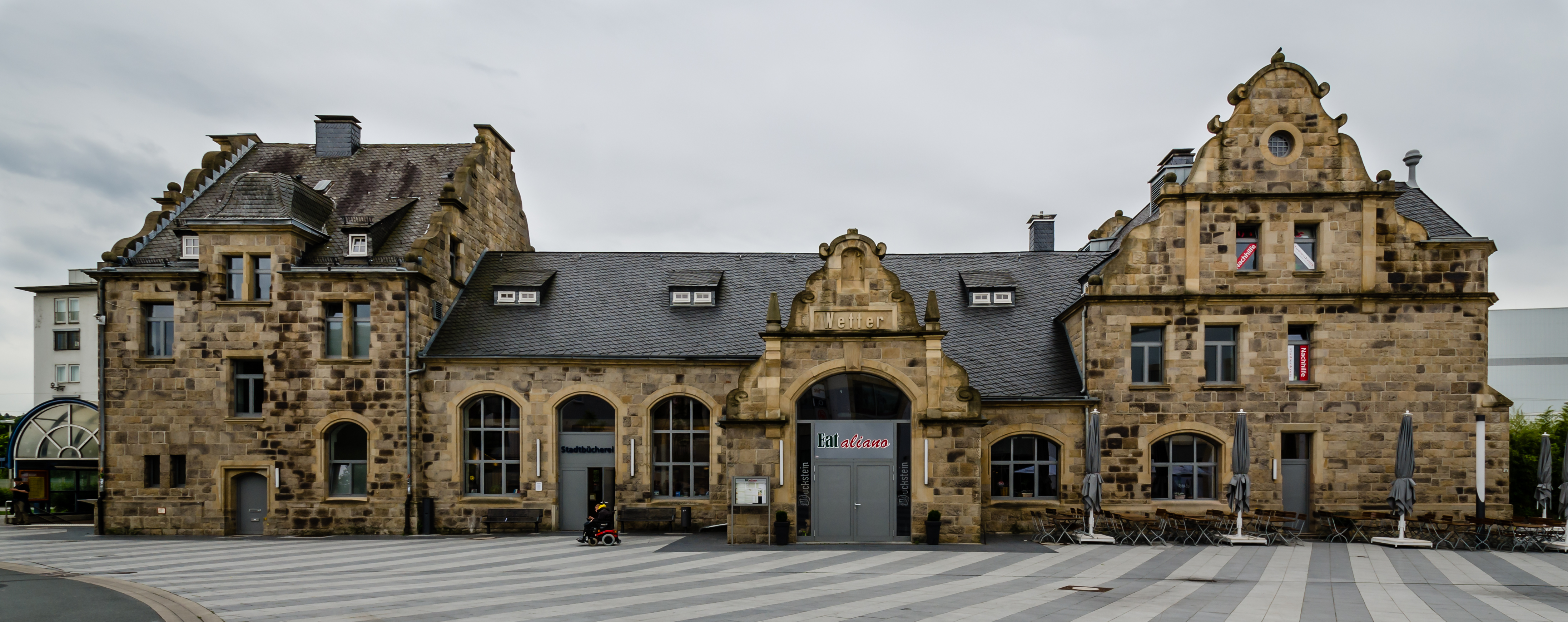 Wetter (Ruhr) central station